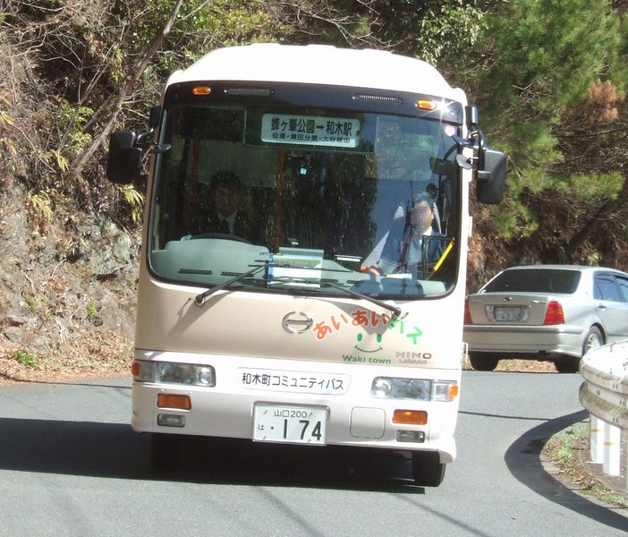 使用車両・前面 (Front mask of car of "Waki Community Bus", line nicknamed "Aiai-bus")